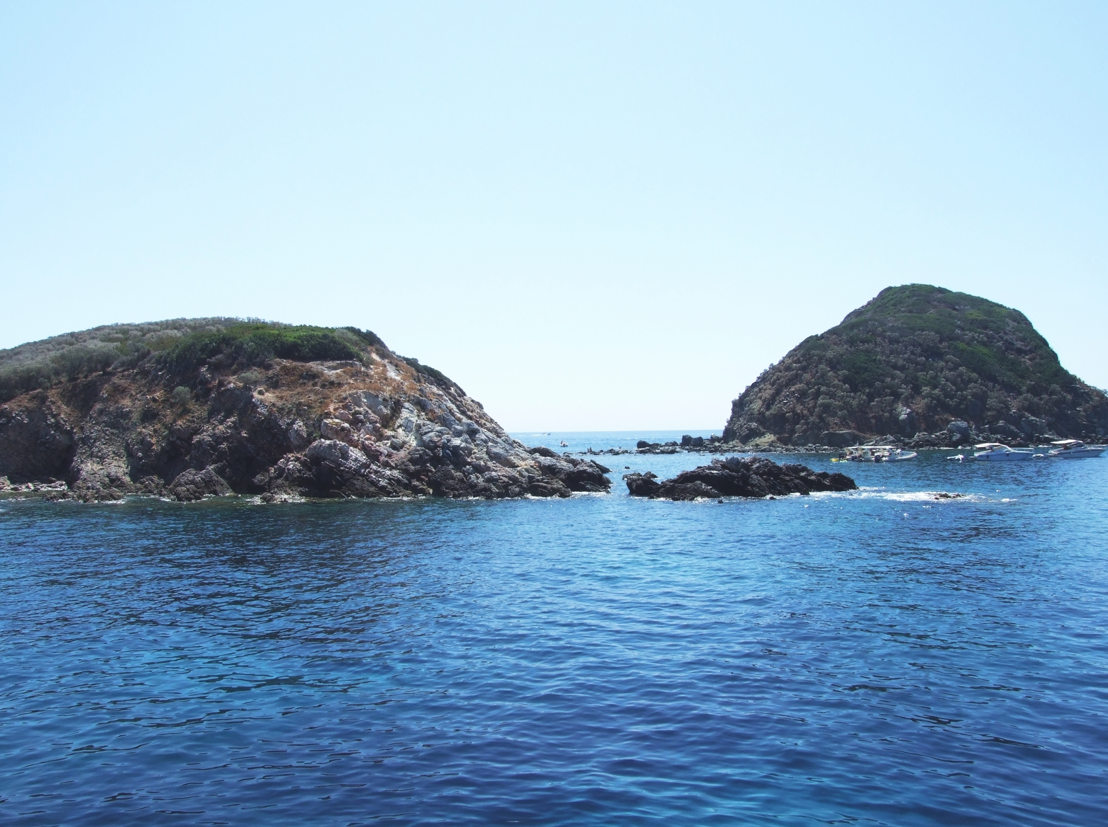 Gemini Isles — small islands in the Mediterranean Tuscan Archipelago, near Elba. Within the Arcipelago Toscano National Park and marine sanctuary.